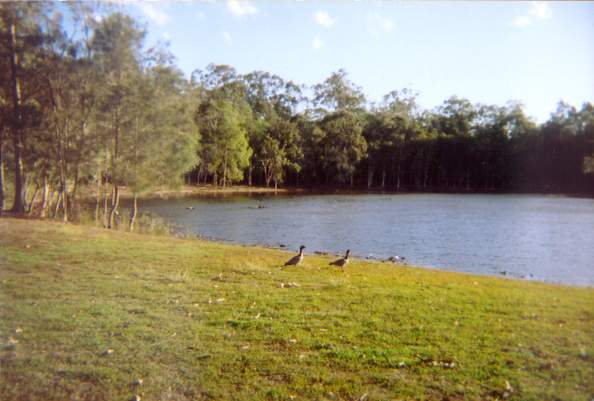 In the grounds of the Brisbane Entertainment Centre ( this photograph was taken by Figaro )